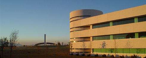 Sunset at campus Puebla.